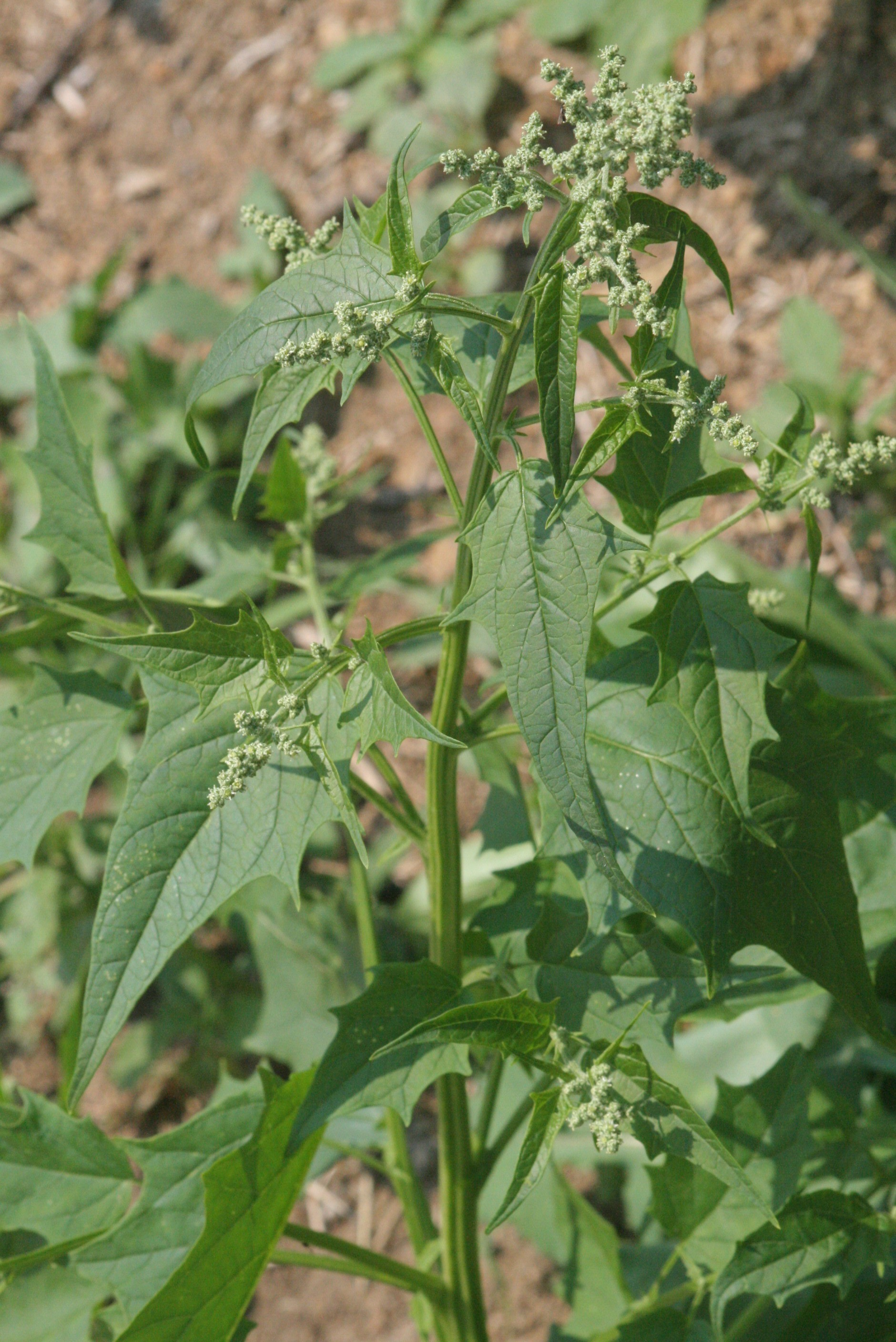 Chenopodium hybridum